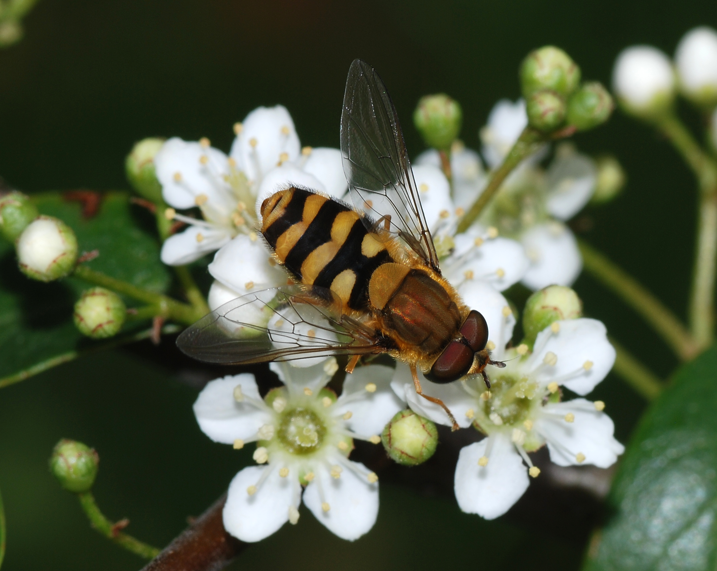 A hover fly (Syrphus cf. ribesii)